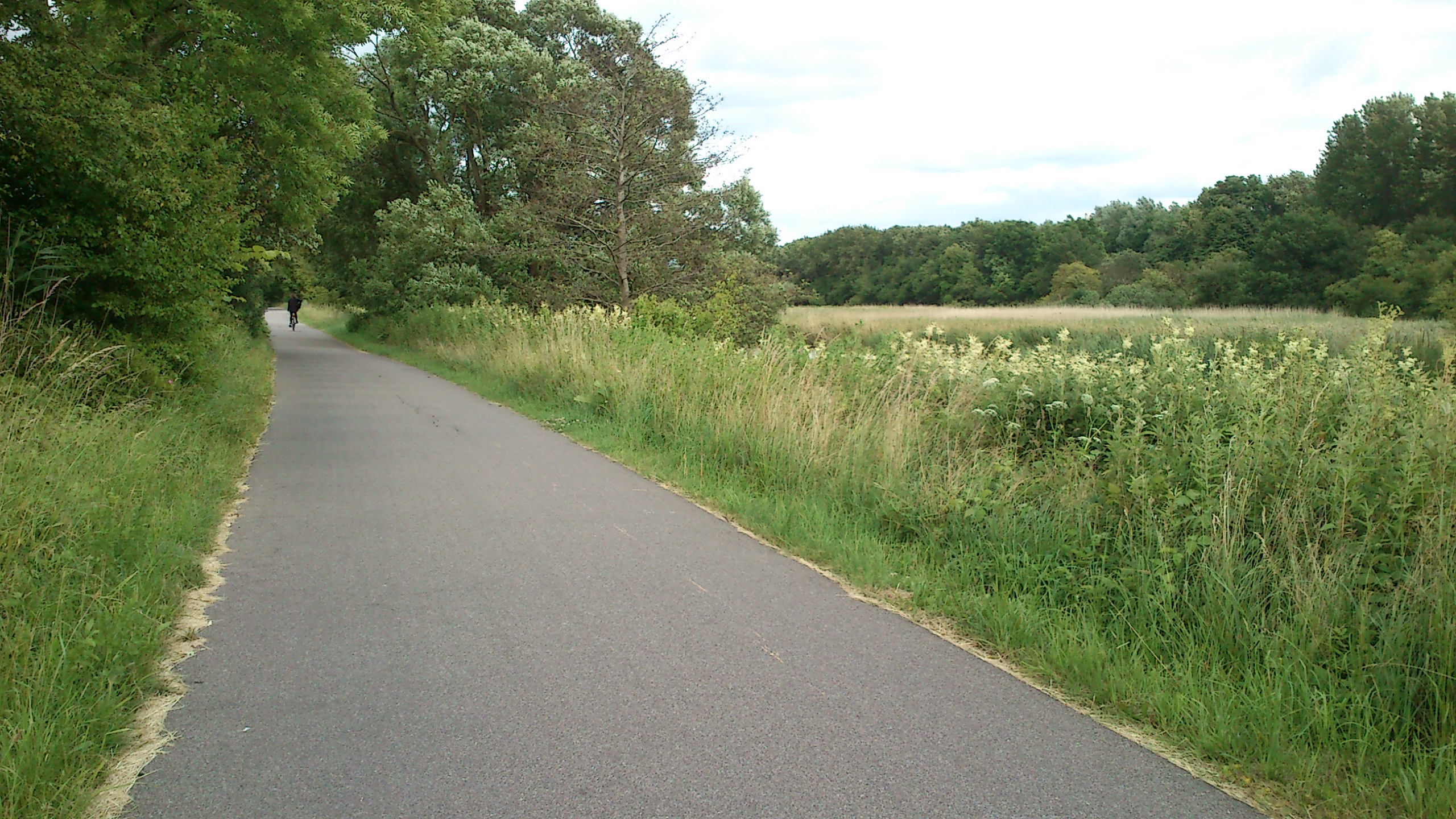 Brabrandstien